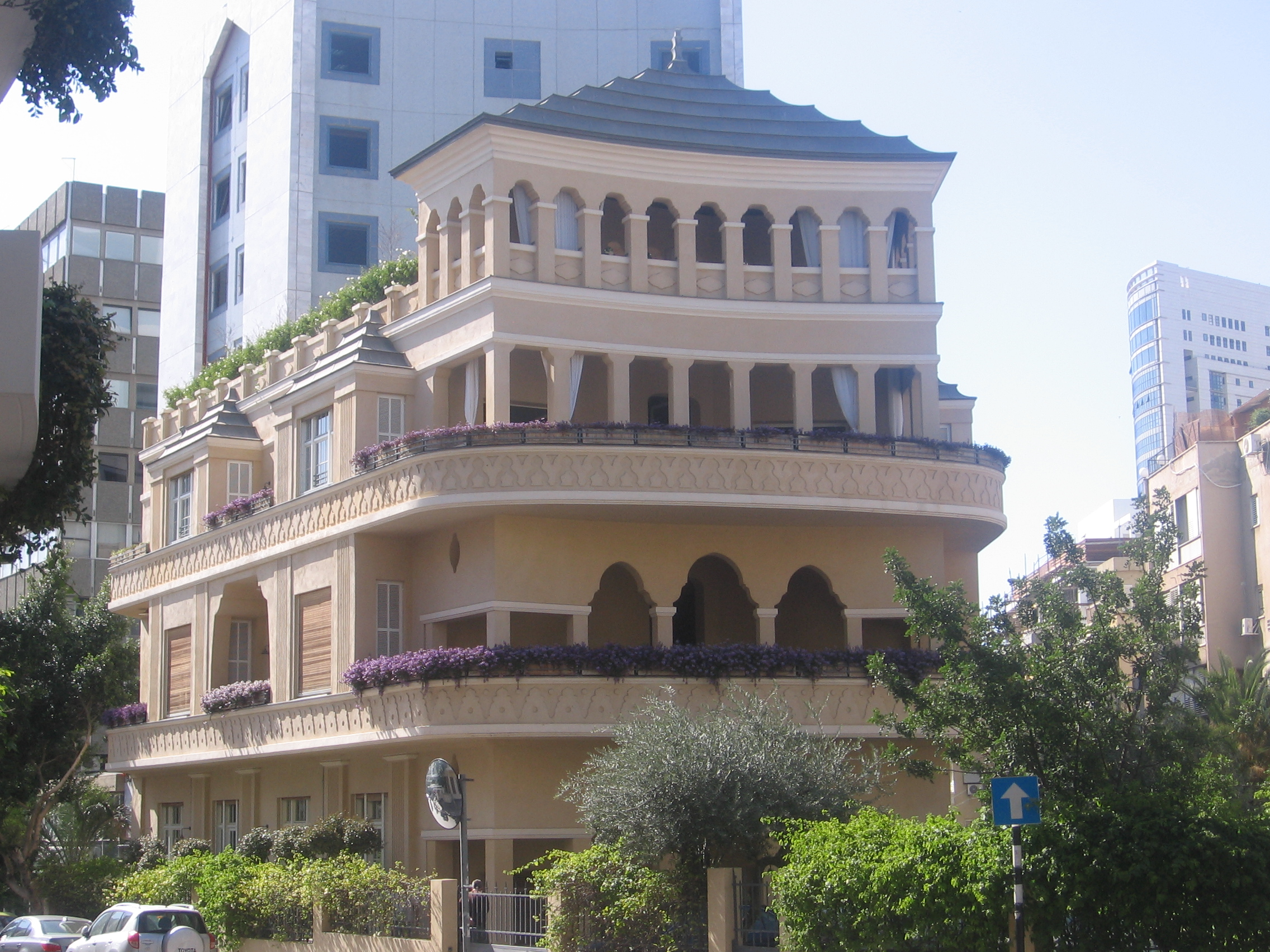 The Pagoda house in Tel Aviv.